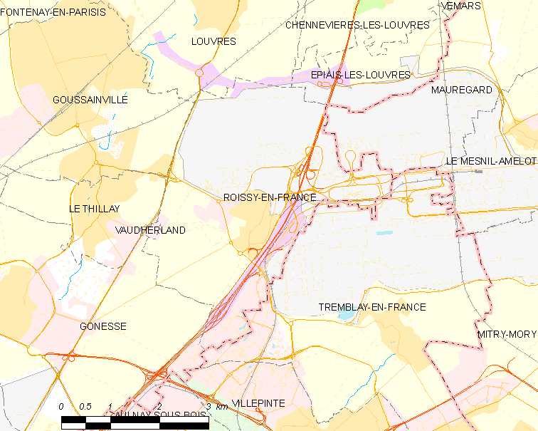 Map of French municipality Roissy-en-France